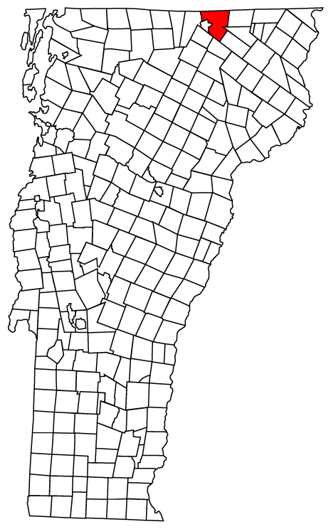 Description: Map of Vermont towns with Derby highlighted Source: Map created by Jared C. Benedict on 26 March 2004. Copyright: © Jared C. Benedict.